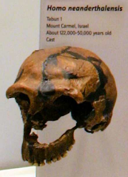 Homo Neanderthalensis Tabun 1 Mount Carmel Israel About 1200,000-50,000 BP